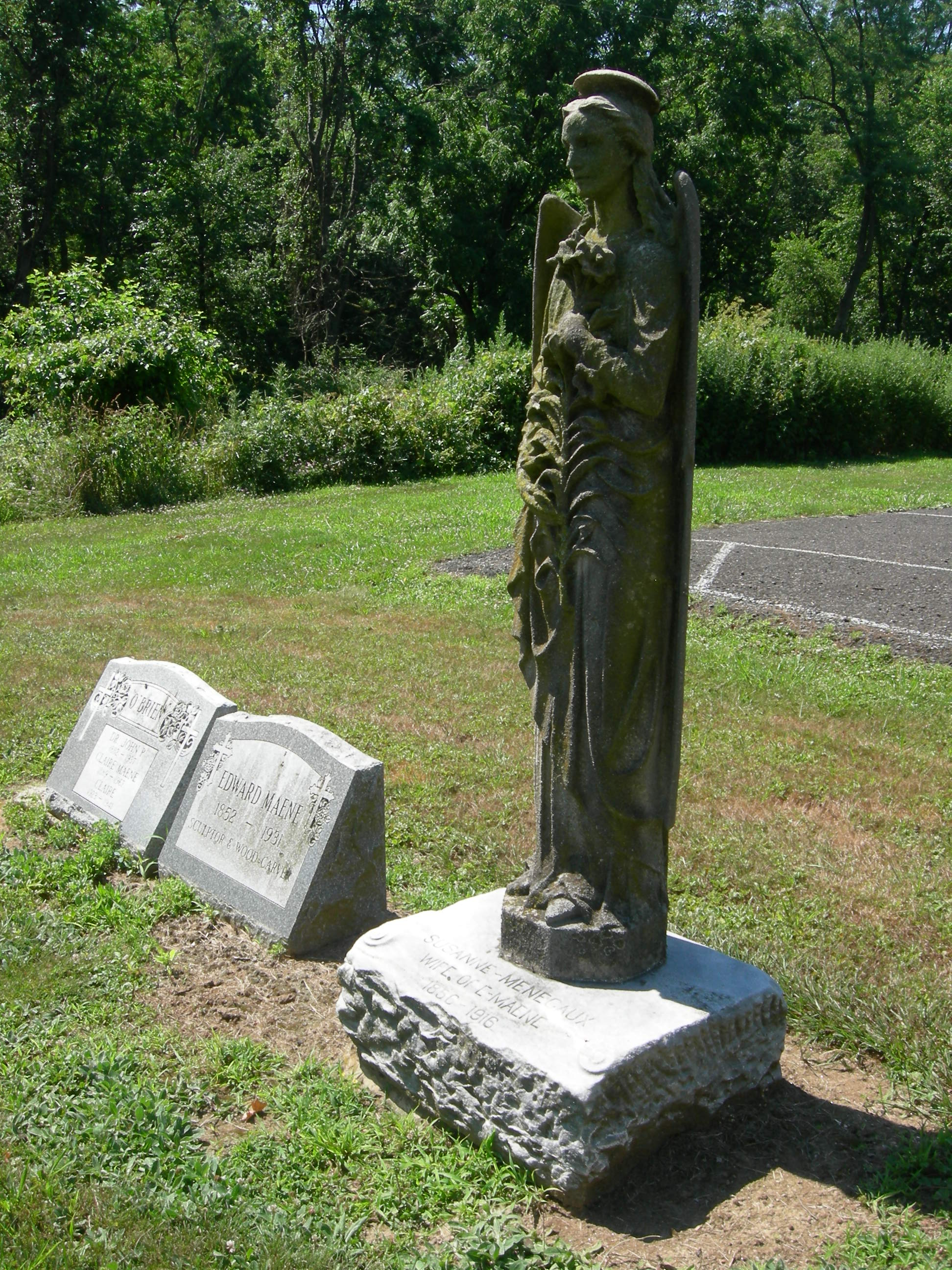 Edward Maene gravesite, Old Pennepack Baptist Church Cemetery, Philadelphia, Pennsylvania.